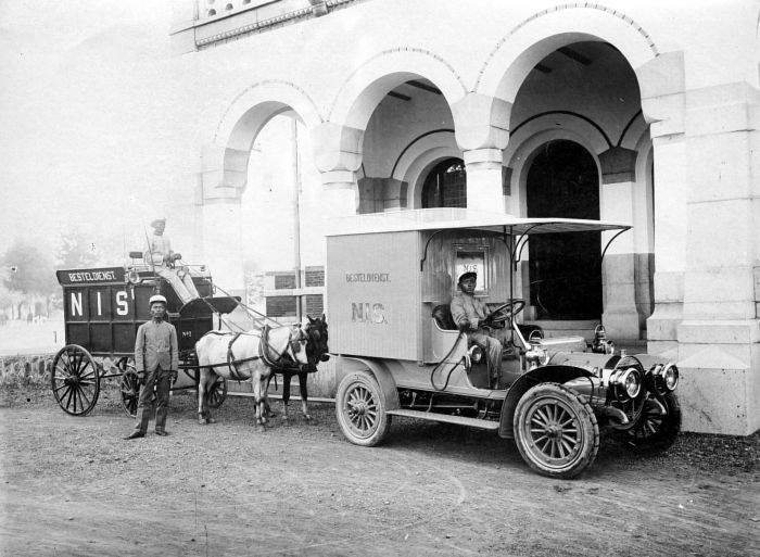 Ways of transport of the delivery services of the Dutch Indies Railway Company before the headoffice in Semarang, Central-Java